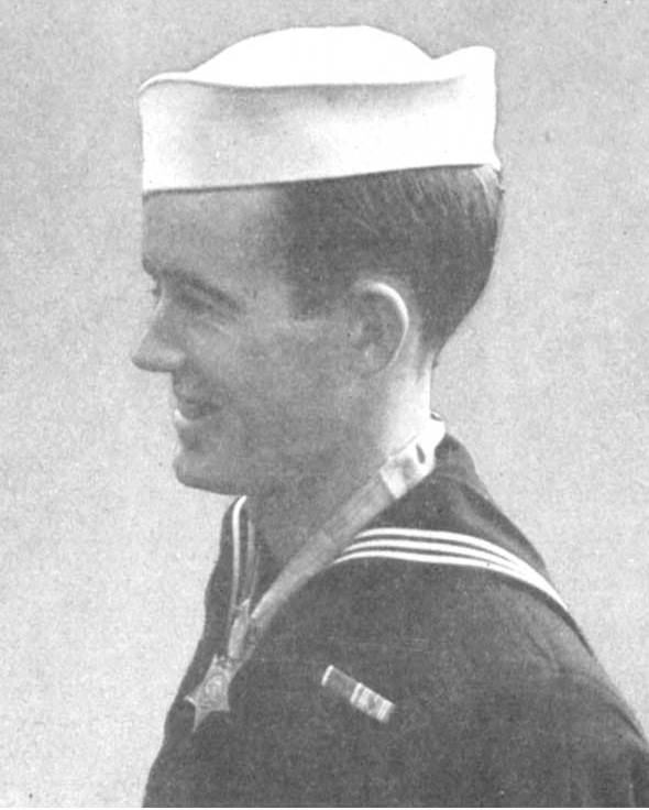 Pharmacist's Mate Second Class George E. Wahlen, United States Navy. Halftone reproduction of a photograph, copied from the official publication "Medal of Honor, 1861-1949, The Navy", page 274. George E. Wahlen received the Medal of Honor for "conspicuous gallantry and intrepidity at the risk of his life" on 3 March 1945, during the Battle of Iwo Jima.